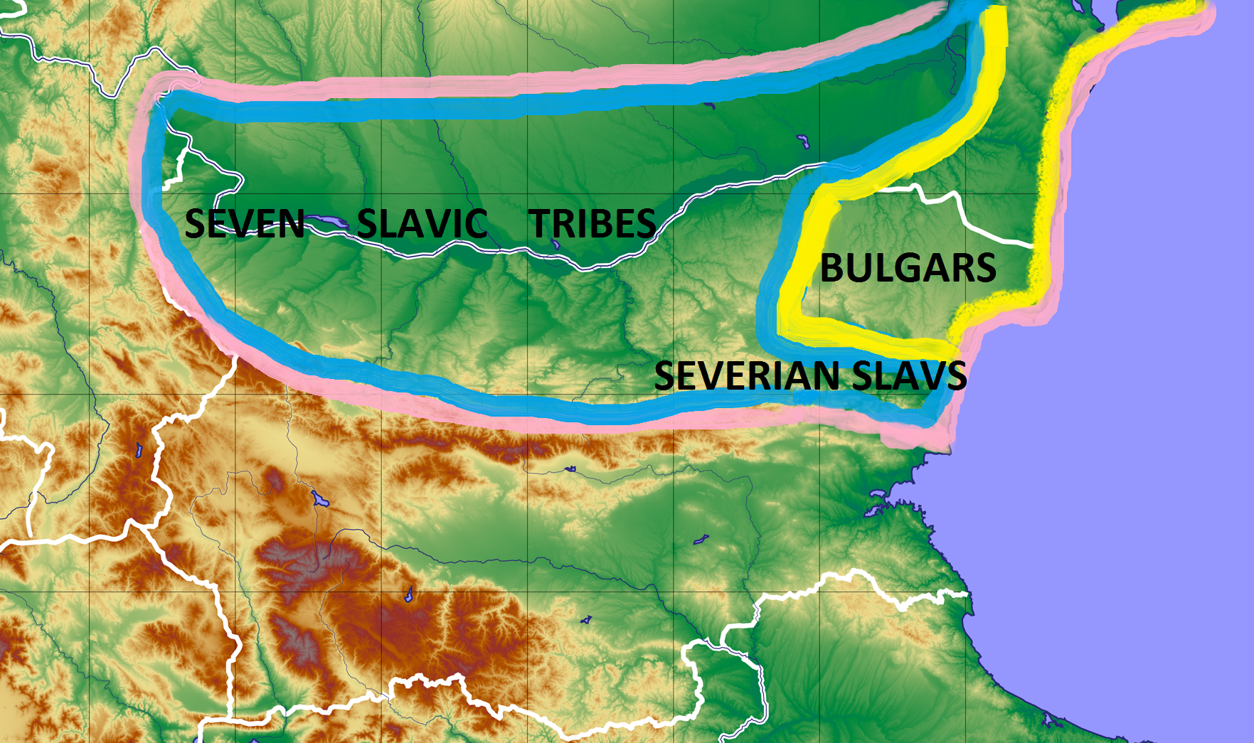 Early Bulgar Khanate's zones of tribal control - in late 7th. century AD. With pink are marked the borders of the state. The frontier in yellow shows the Bulgars' zone of control and the bluе frontier marks the Slavs' federal area. Based on The world of the ancient Slavs by Zdeněk Váňa, Wayne State University Press, 1983, map on p. 53, and Истинската история на България. Началото, Автор: Иван Петрински, 2012, Ciela, ISBN: 978-954-28-0286-0, стр. 28-62.